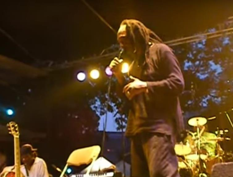 Thomas Mapfumo at Afrofest (Queens Park, Toronto), July 10 2011